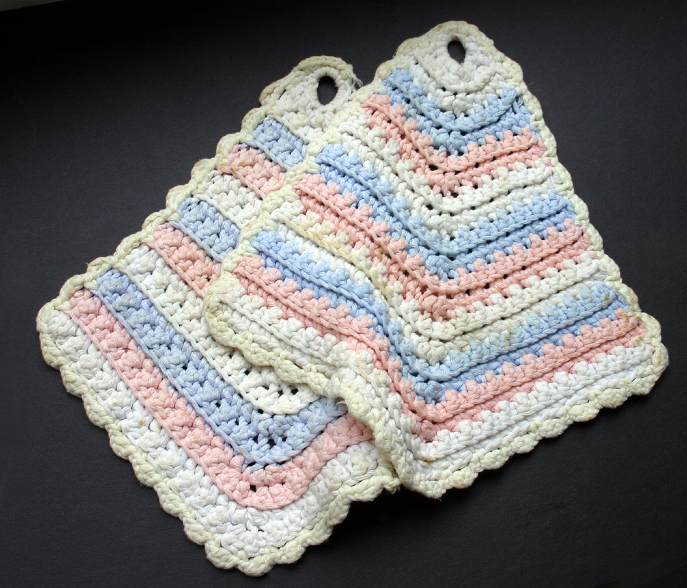 oven cloth/potholder, crochet work, Germany 1970s